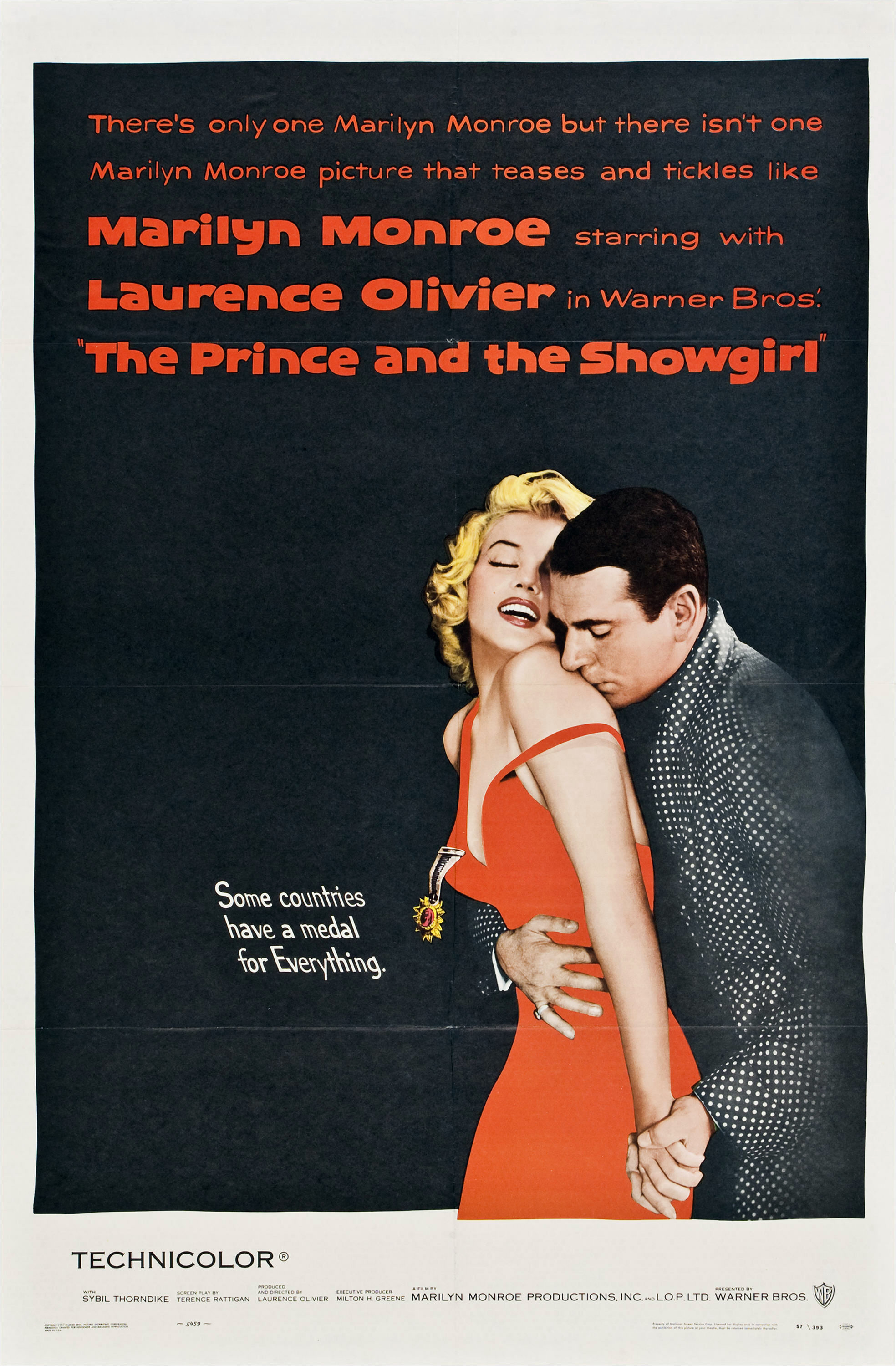 US theatrical poster for the film The Prince and the Showgirl (1957). Designed by Bill Gold, the photography for the poster was done by Richard Avedon. Gold hung a small gold medal on Marilyn Monroe's dress to match the tagline for the film "Some countries have a medal for everything". See Block, Alex Ben (May 16, 2011). "Secrets Behind Hollywood’s Greatest Movie Posters". The Hollywood Reporter.